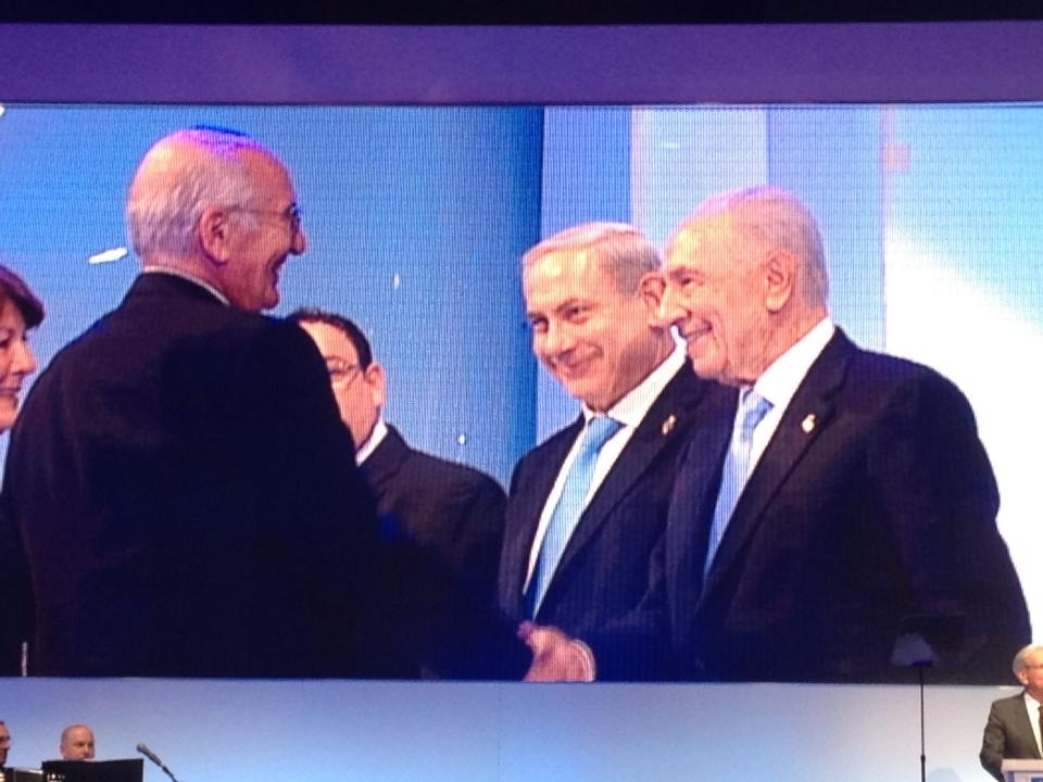 Prof Adam Mazor - being granted the "Israel Prize 2013 for Design and Architecture"